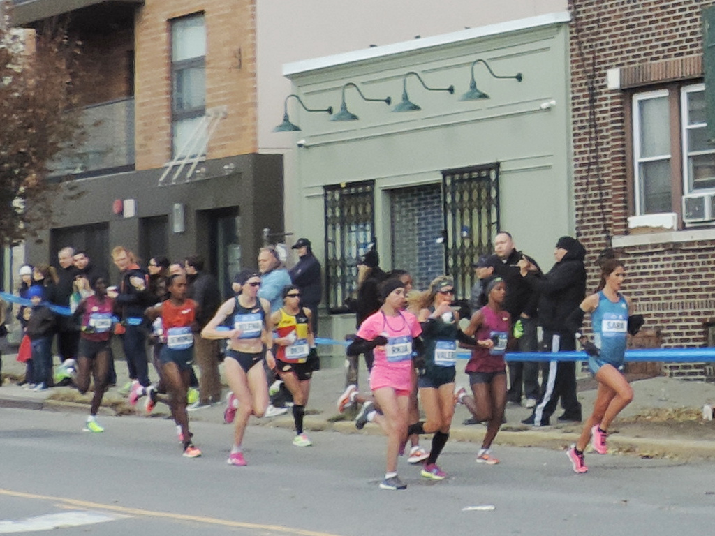 Looking northwest as lead women on Greenpoint Avenue approach McGuiness Blvd.